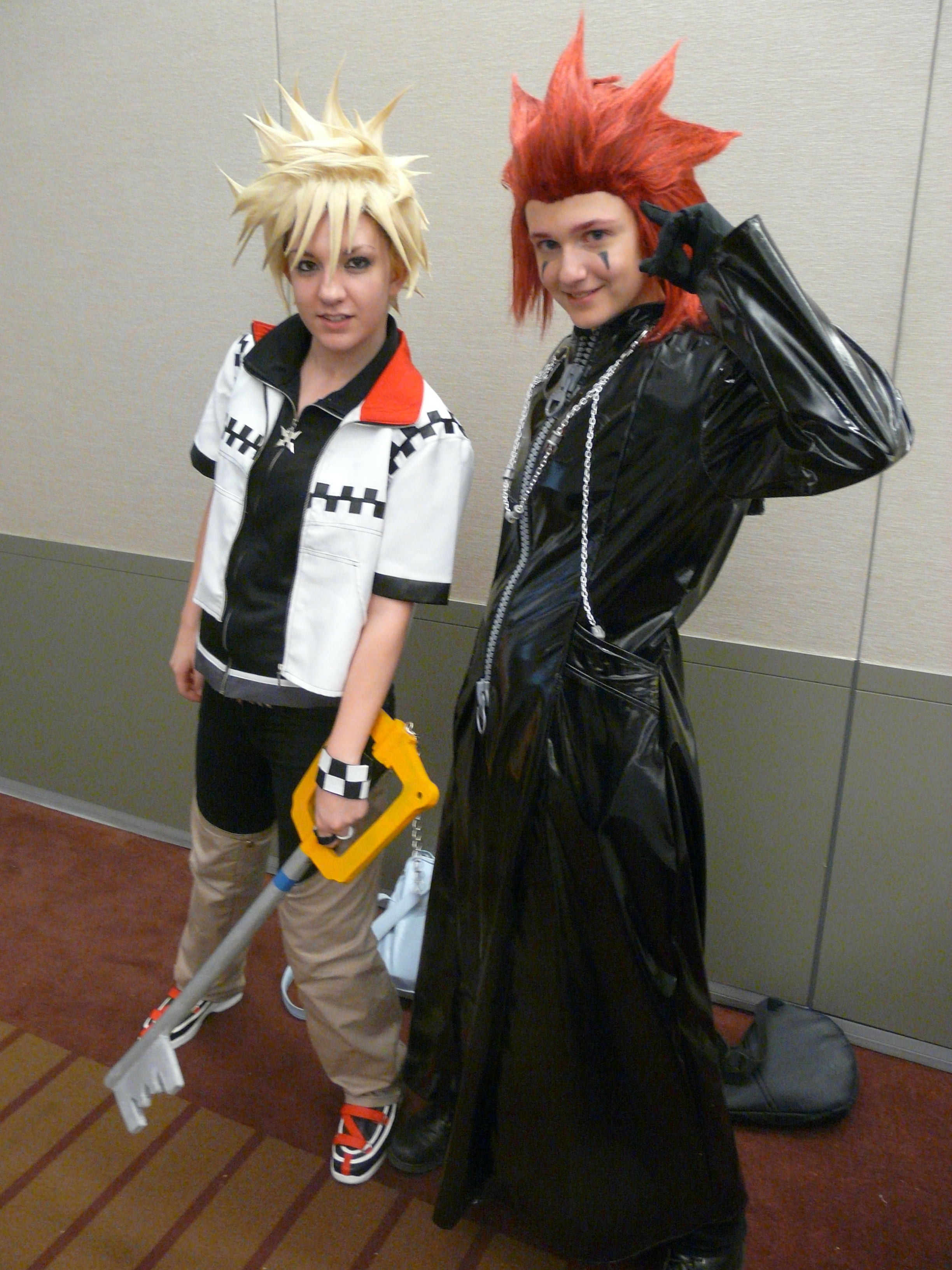 Tekkoshocon at David L. Lawrence Convention Center (2010)